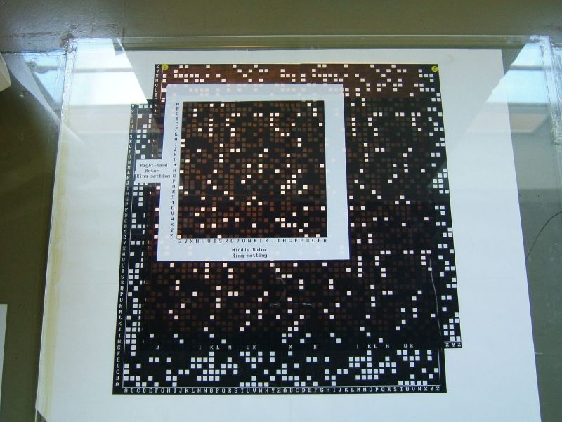 Demonstration of Zygalski_sheets (perforated sheets) at Bletchley Park, photographed by Toby Oxborrow.